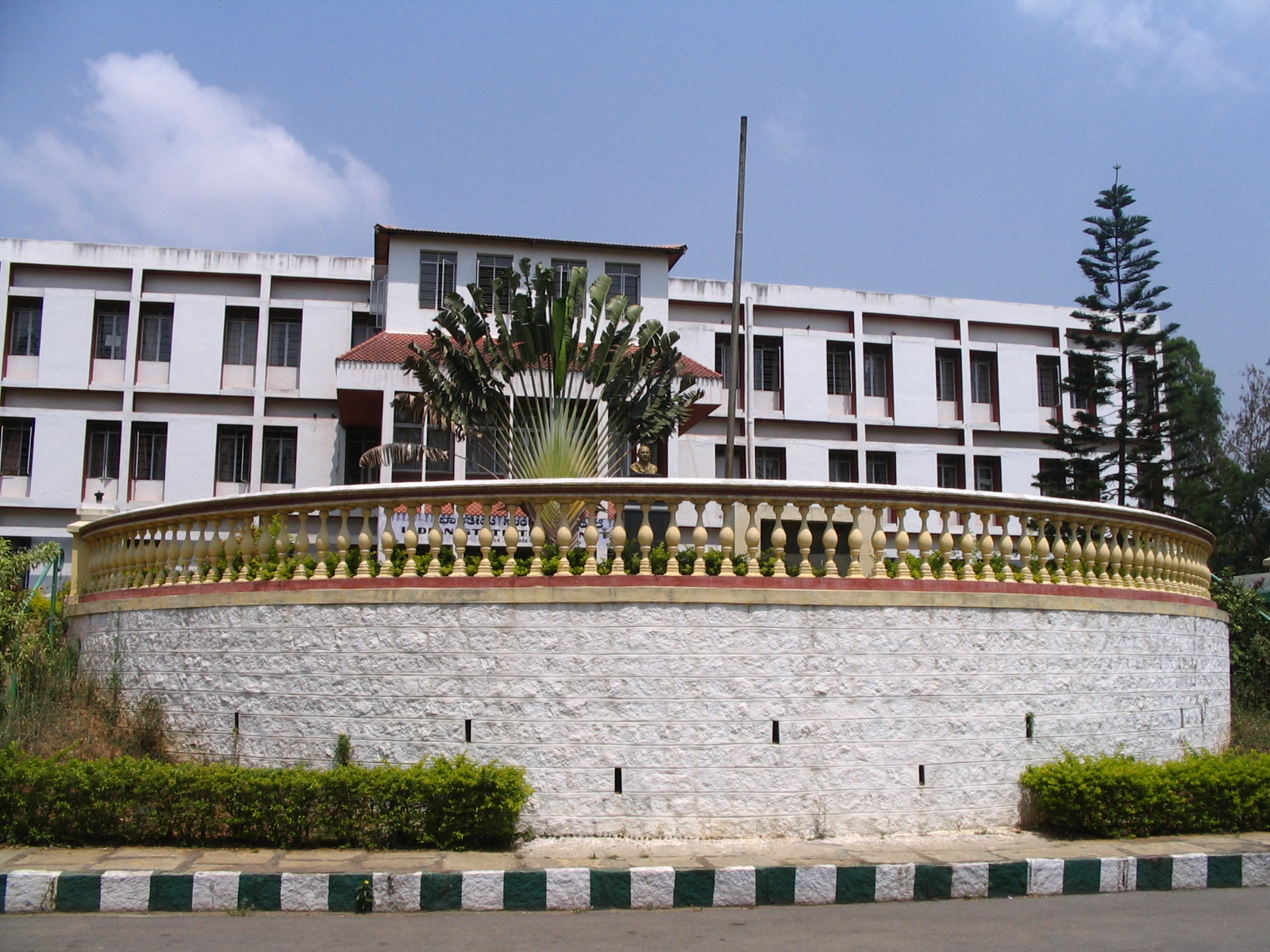 Main building of Indian Statistical Institute Bangalore